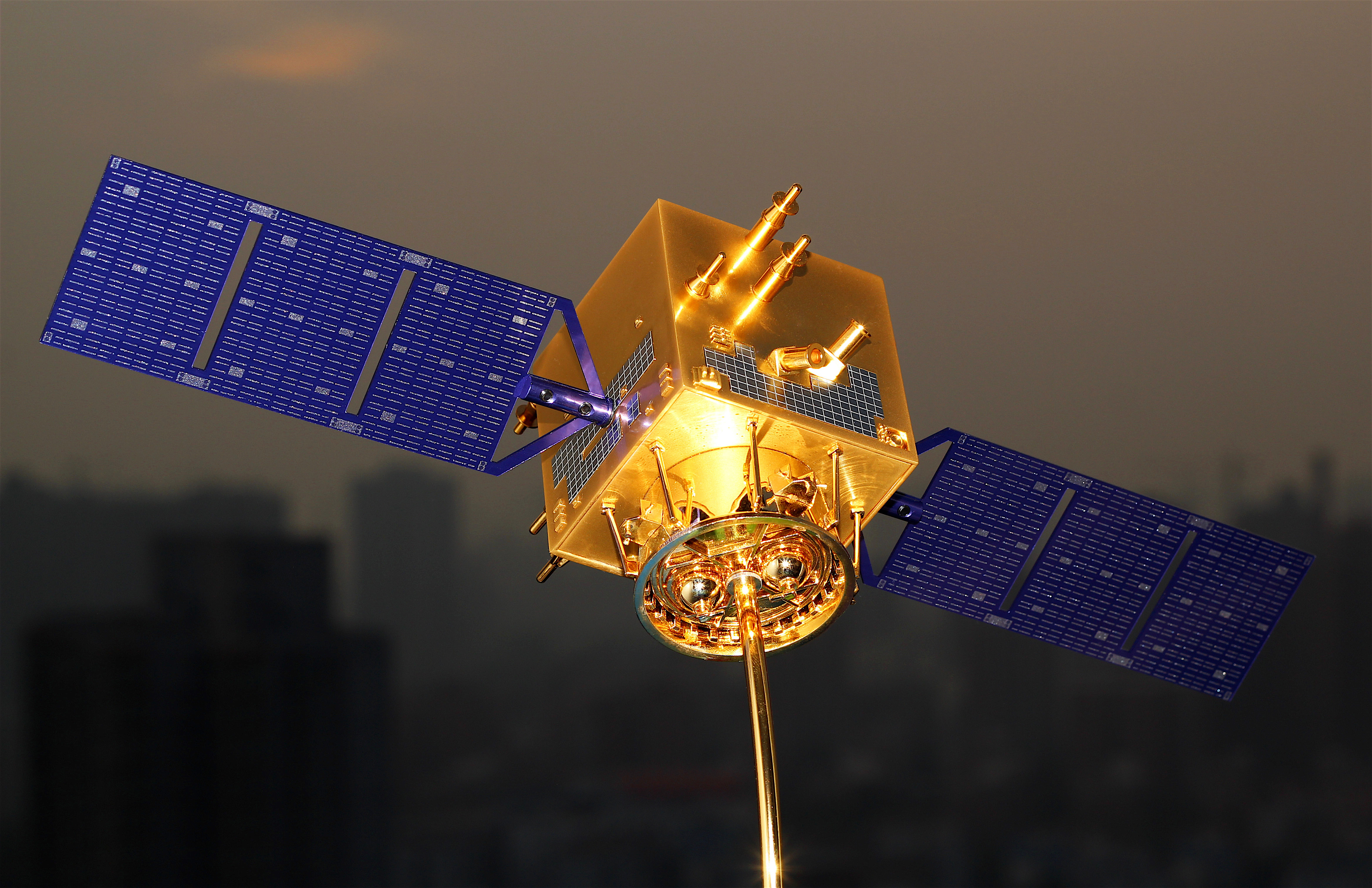 1:25 scale replica of the VRSS-1 "Satélite Miranda".